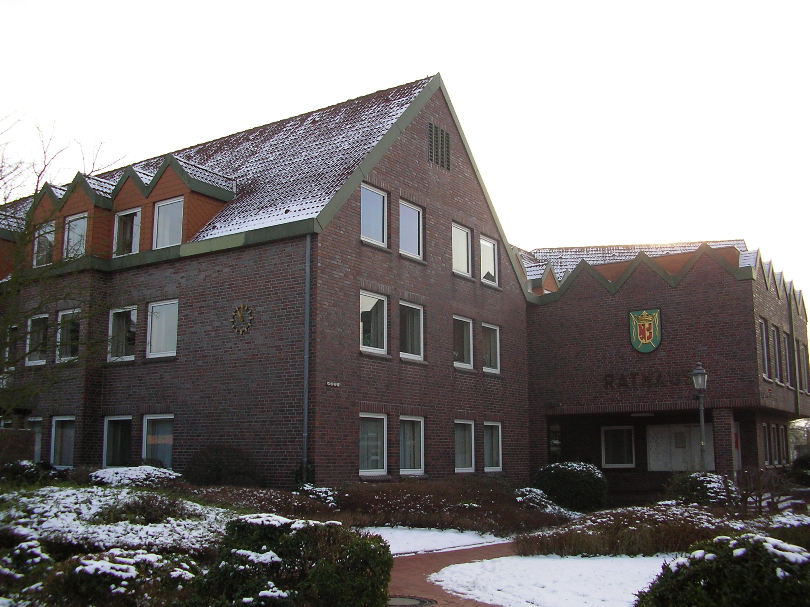 Wittmund, town hall